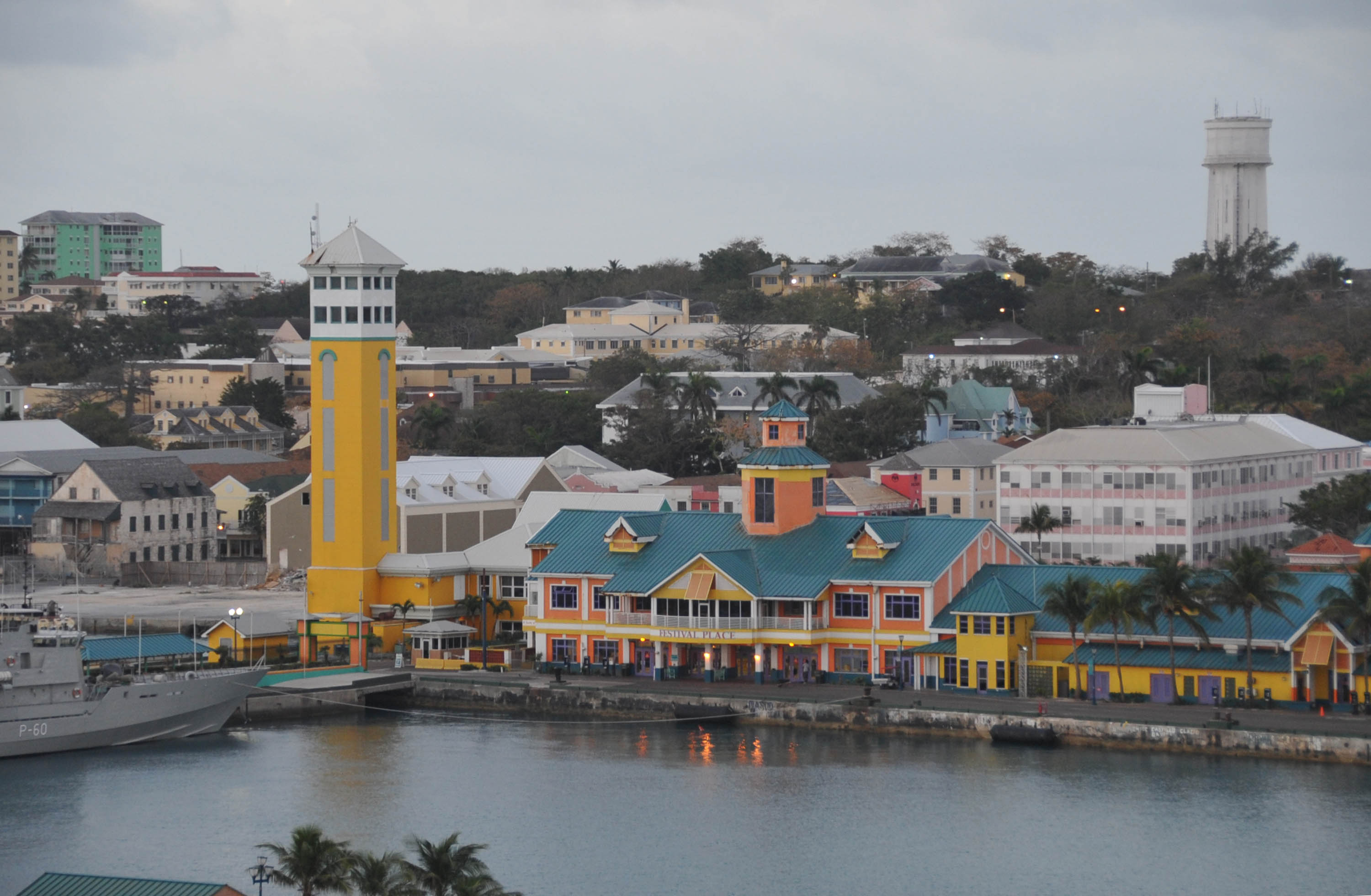 THIS IS A VIEW OF THE COLORFUL CRUISE SHIP TERMINAL IN NASSAU